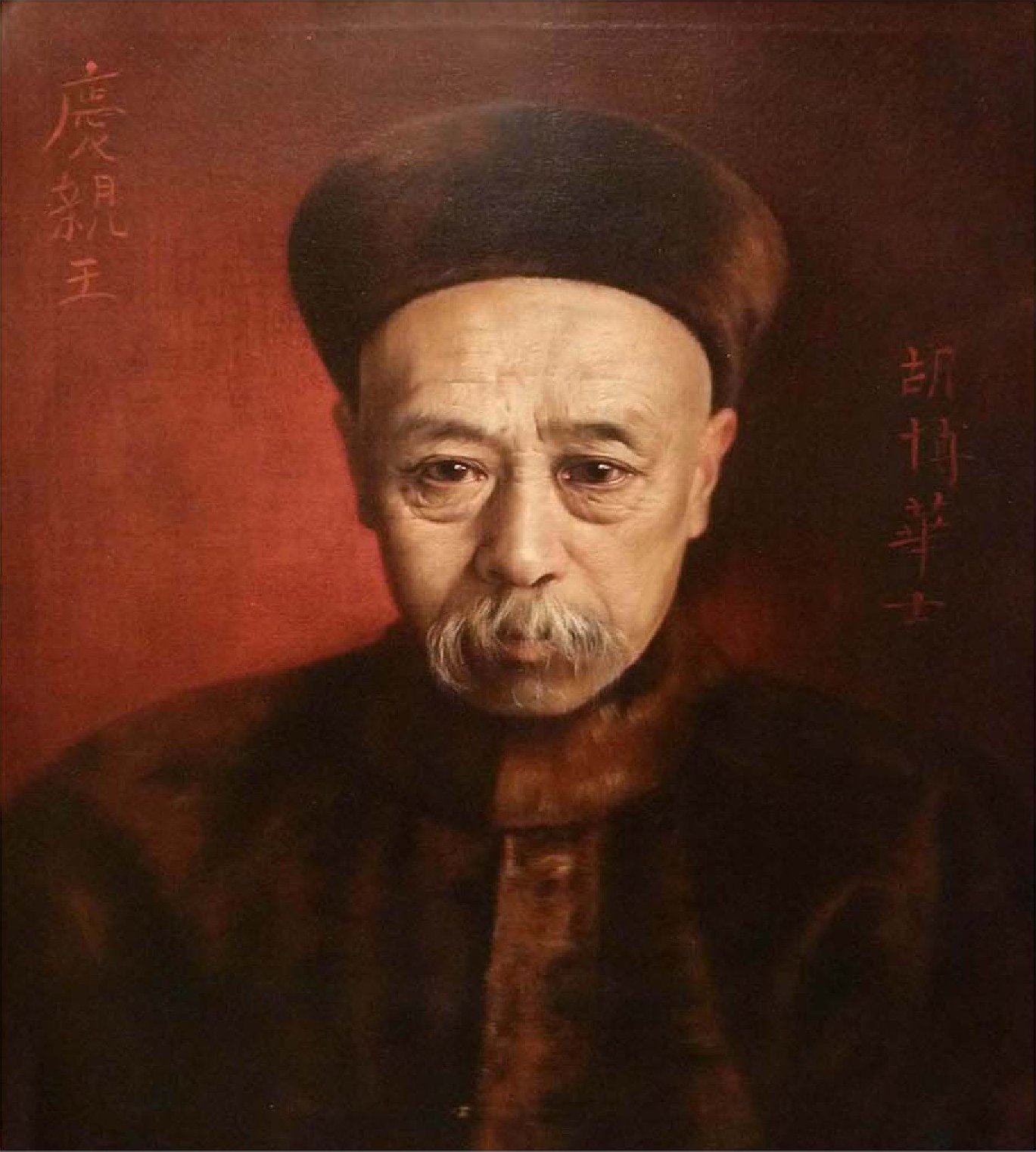 Hubert Vos's painting of Prince Ching (Yikuang), oil on canvas, 61 x 52.7 cm, Capital Museum, Beijing